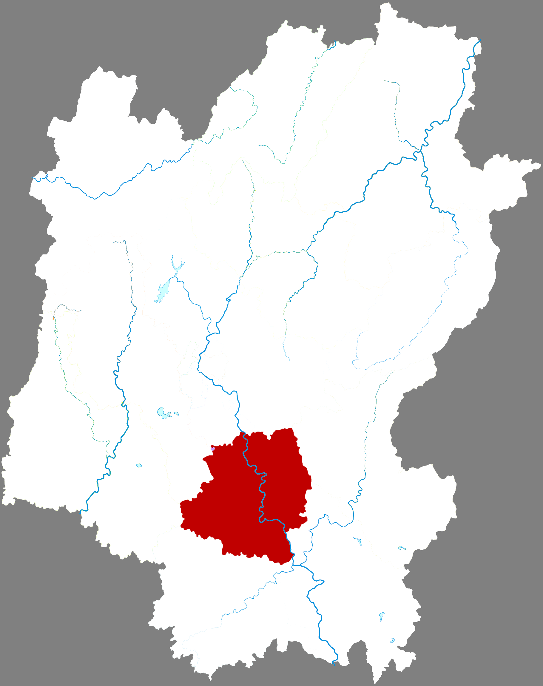 Location of Yangshuo county in Guilin city, China